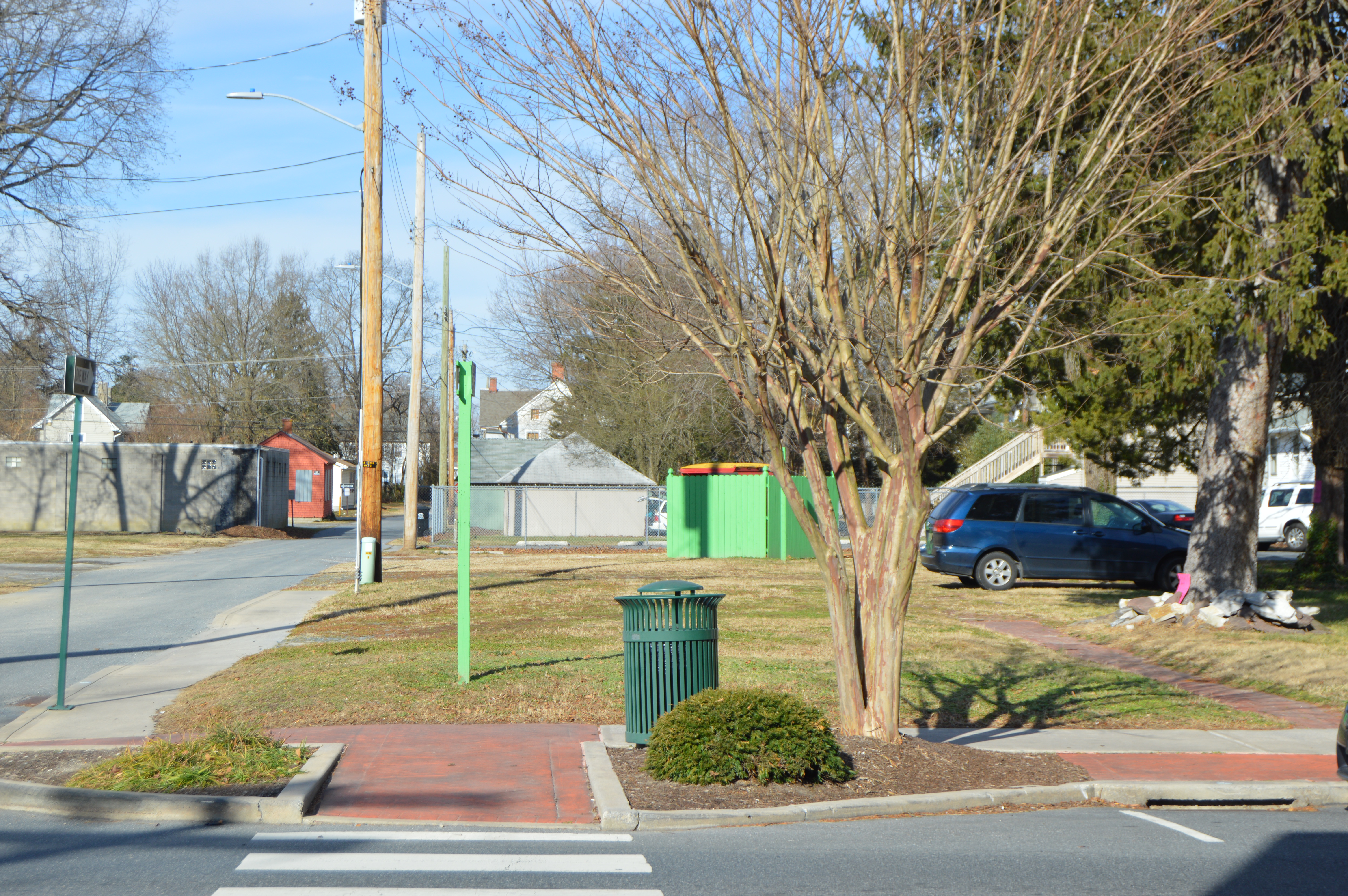 Overview of the lot on the northeastern corner of the intersection of High and Pearl Streets in Seaford, Delaware, United States. This was formerly the site of the J. W. Cox Dry Goods Store; listed on the National Register of Historic Places in 1987, it has not yet been removed despite its destruction.